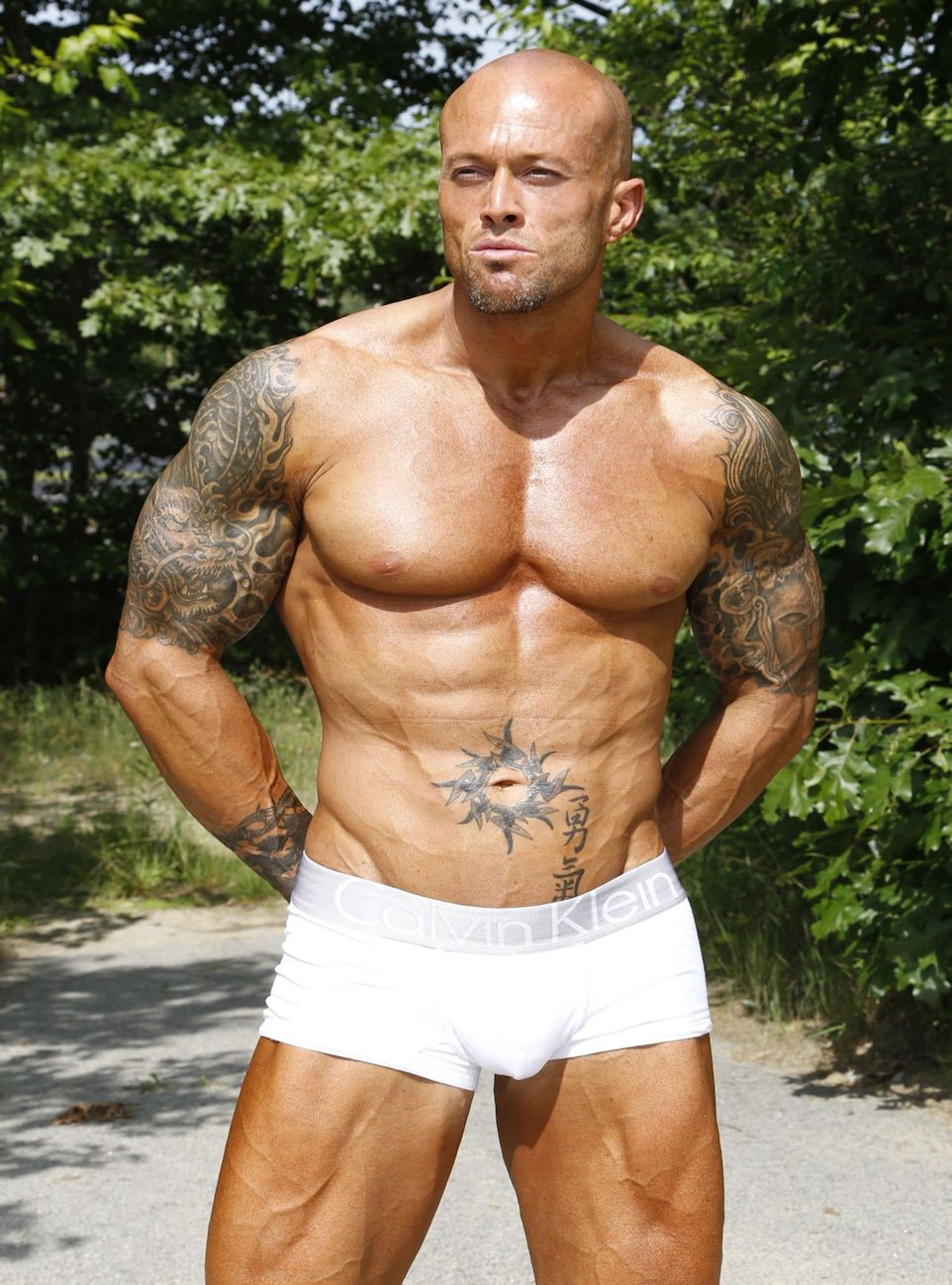 Male Model John Quinlan in Calvin Klein Low-Rise Boxer Briefs